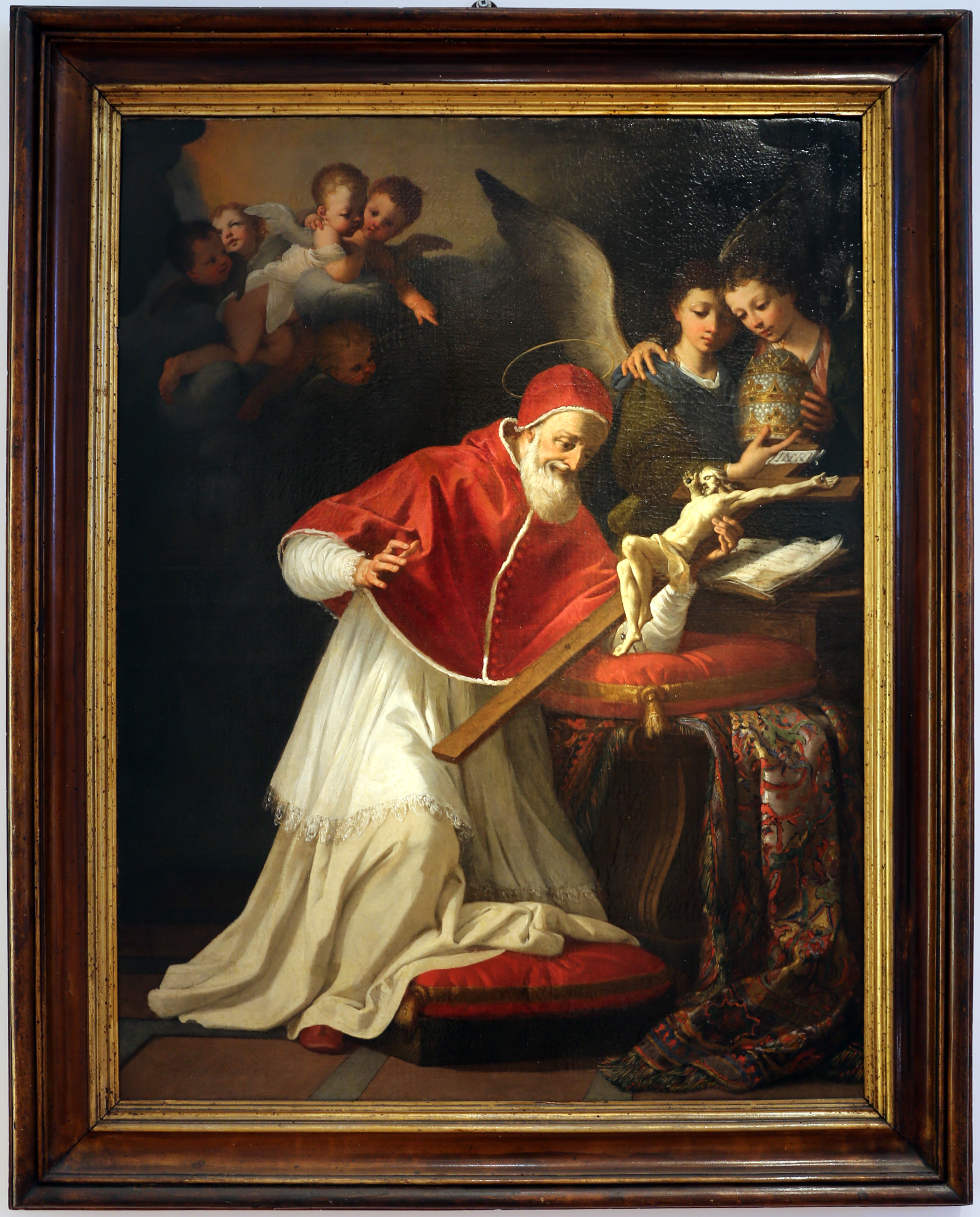 Santa Sabina (Rome) - Museum